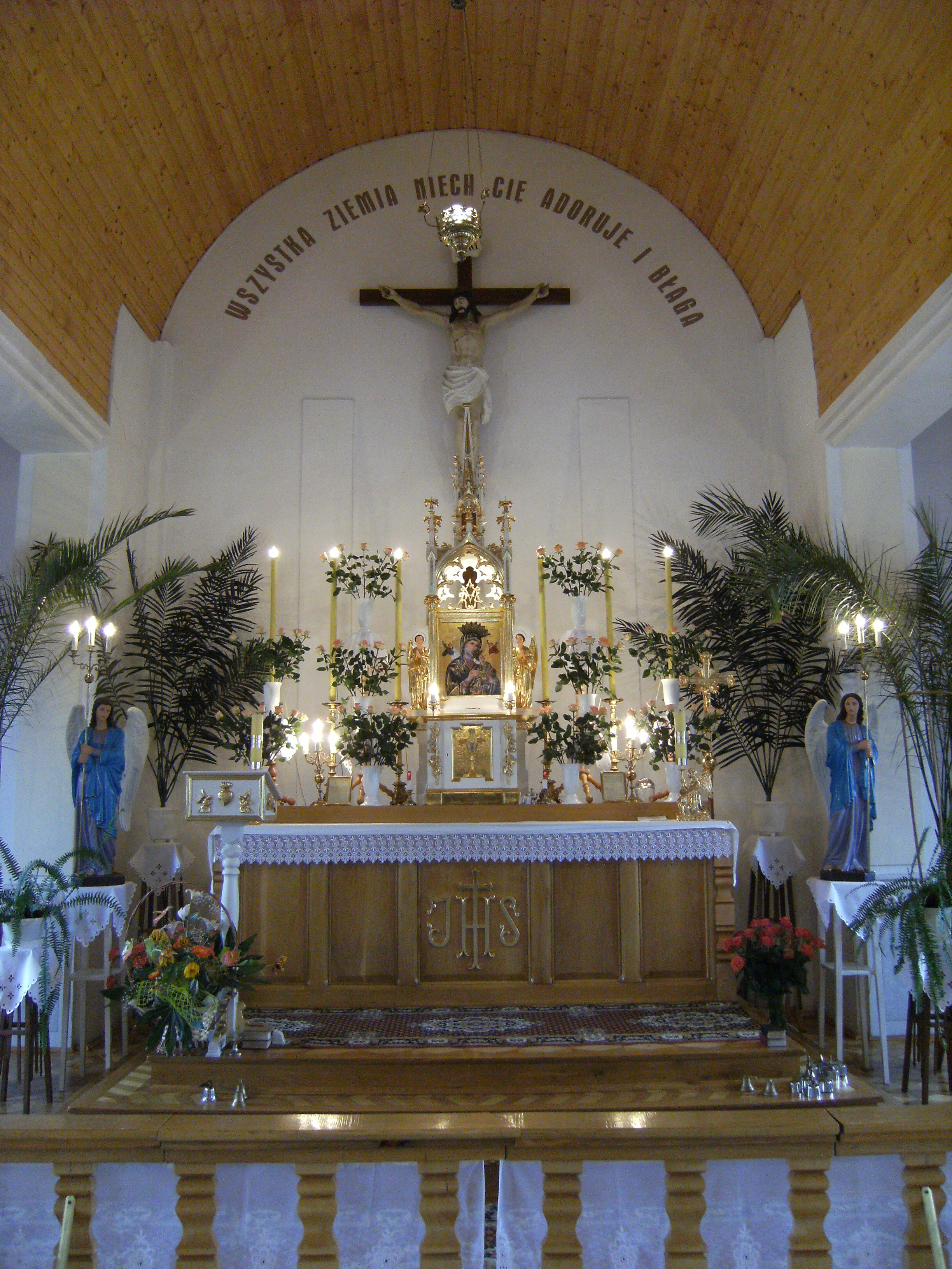 Mariavite Church in Żarnówka